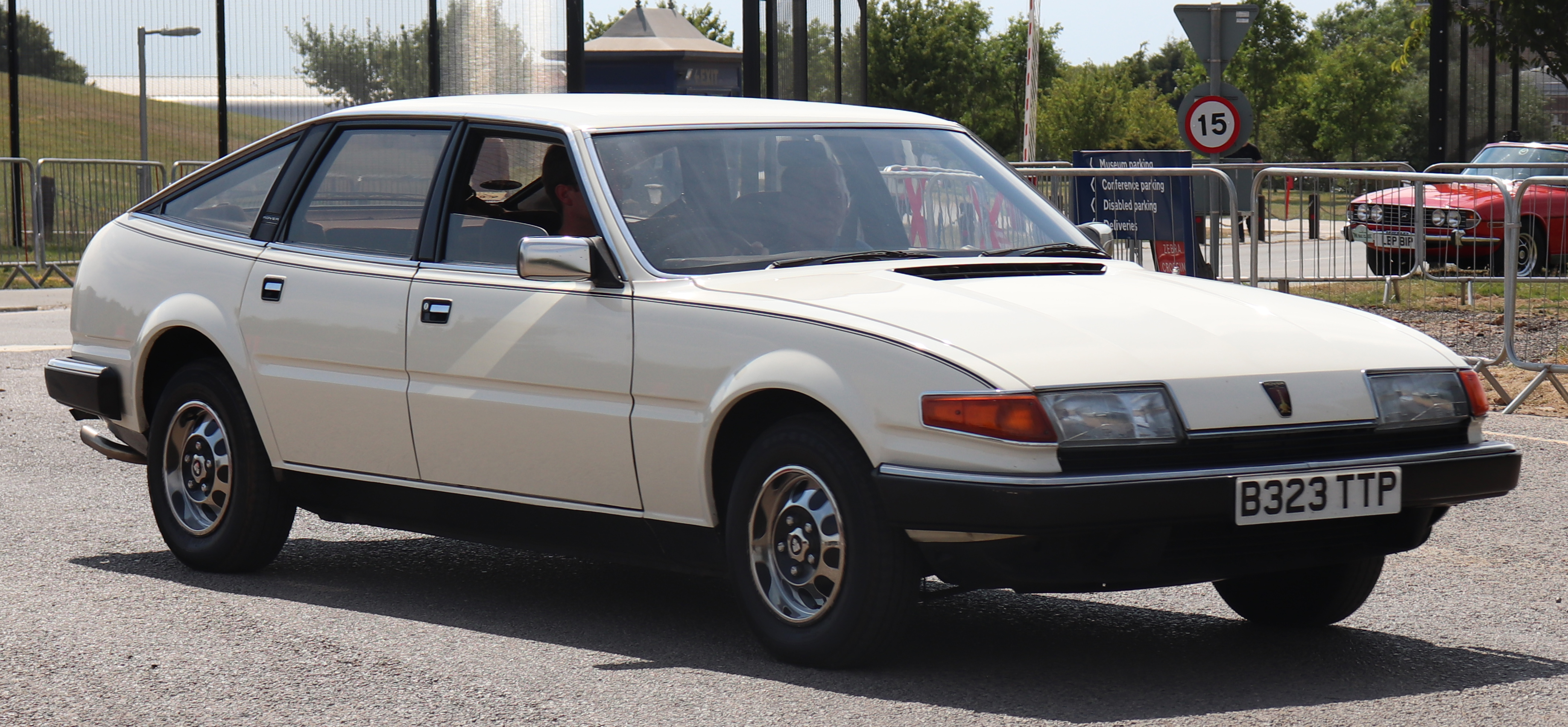 1984 Rover SD1 2.3 Taken at the British Motor Museum BMC & Leyland Show 2018, Gaydon